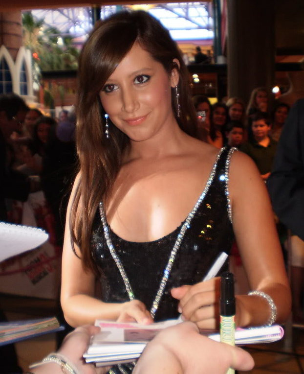 Ashley Tisdale during the High School Musical 3: Senior Year premiere in Melbourne, Australia.